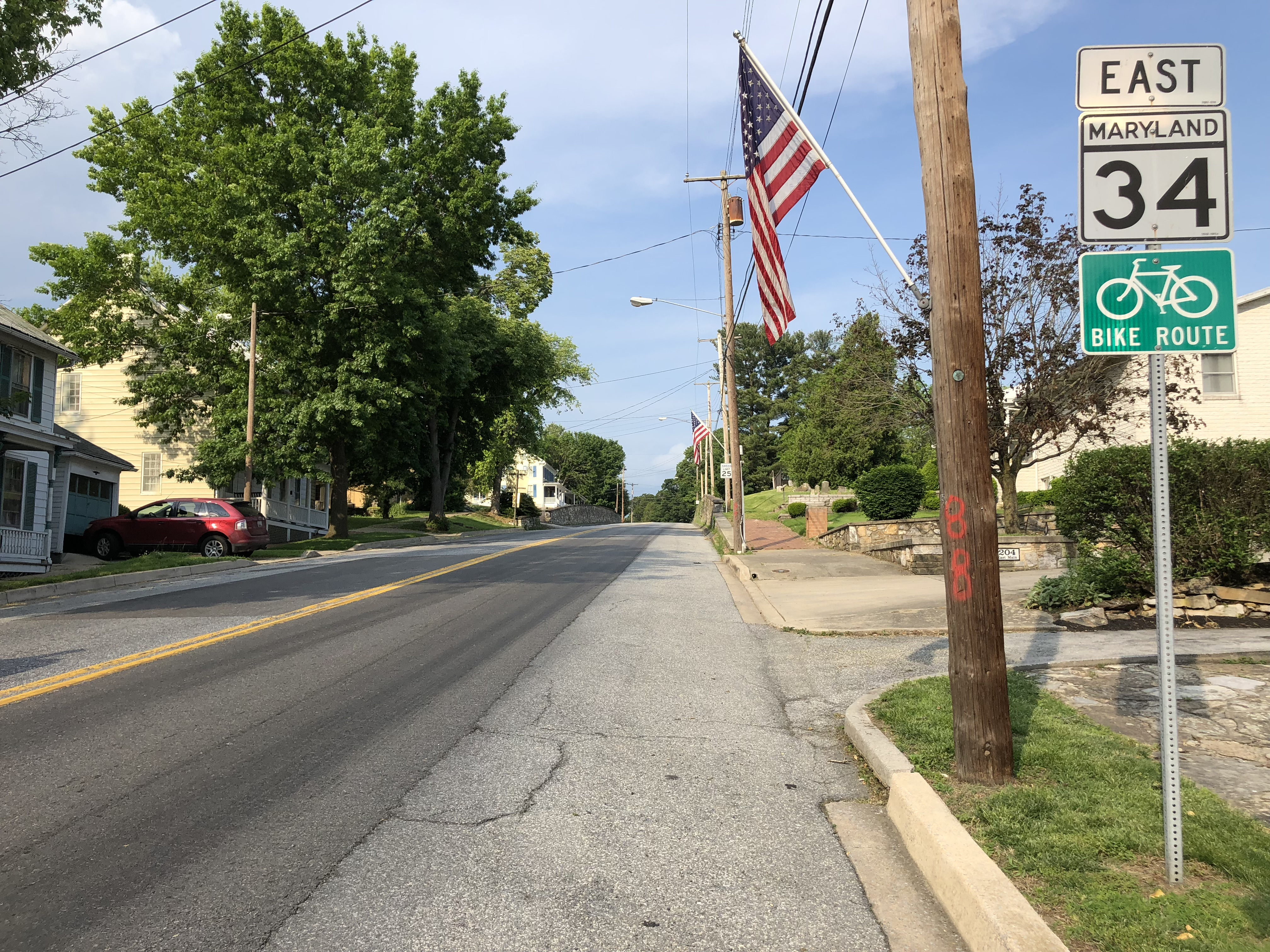 View east along Maryland State Route 34 (Main Street) at Maryland State Route 65 (Church Street) in Sharpsburg, Washington County, Maryland